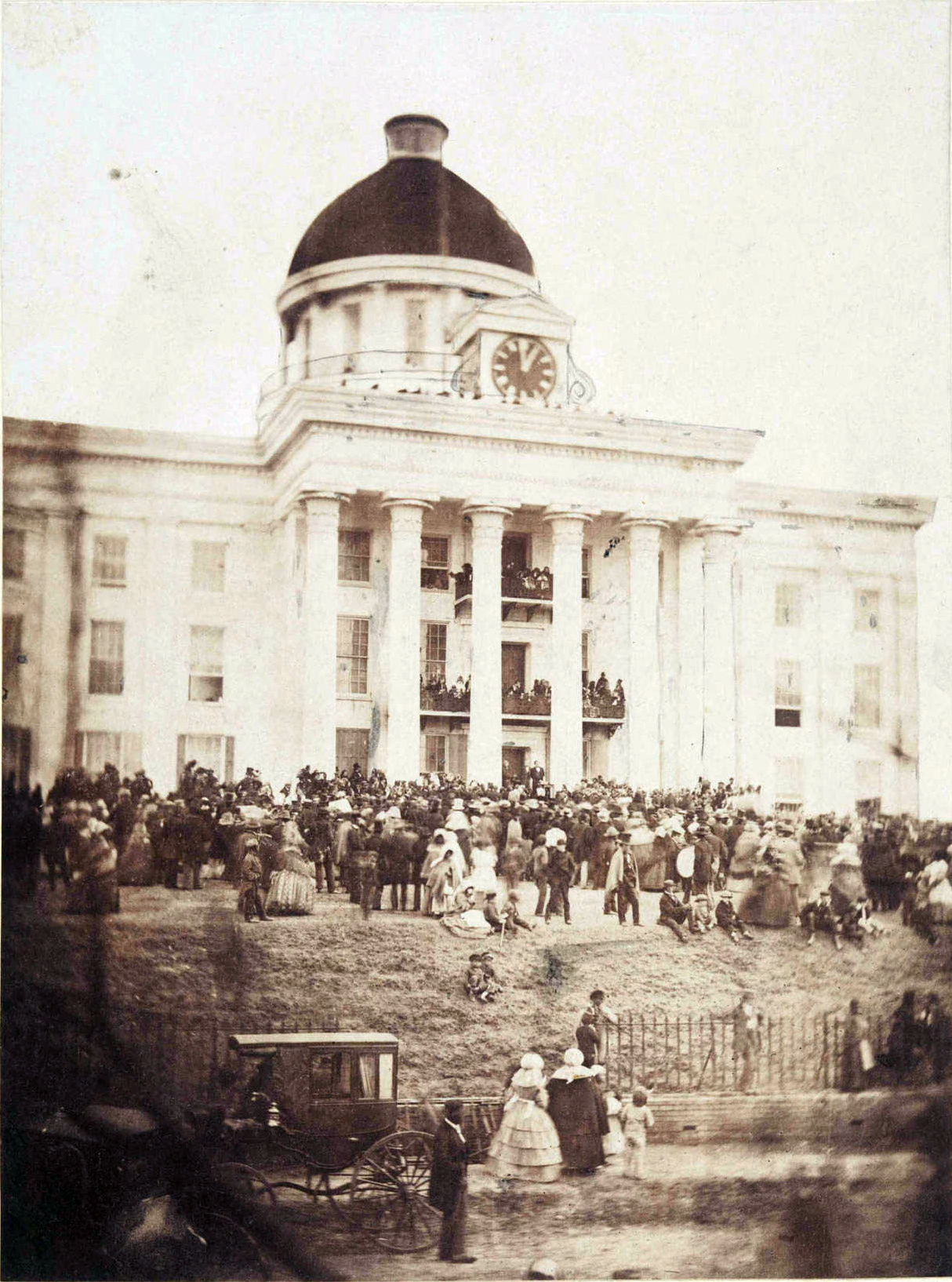 First inauguration of Jefferson Davis as President of the Confederate States of America at Montgomery, Alabama, February 18, 1861. Lithographs based on this image were published from the 1860s onward, however, the actual photograph was first published in Dudley H. Miles' The photographic history of the Civil War. New York: The Review of Reviews Co., 1912, v.9, p.291.